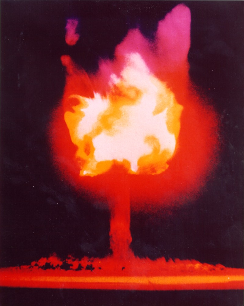 U.S. nuclear test "Fox" of Operation Ranger.